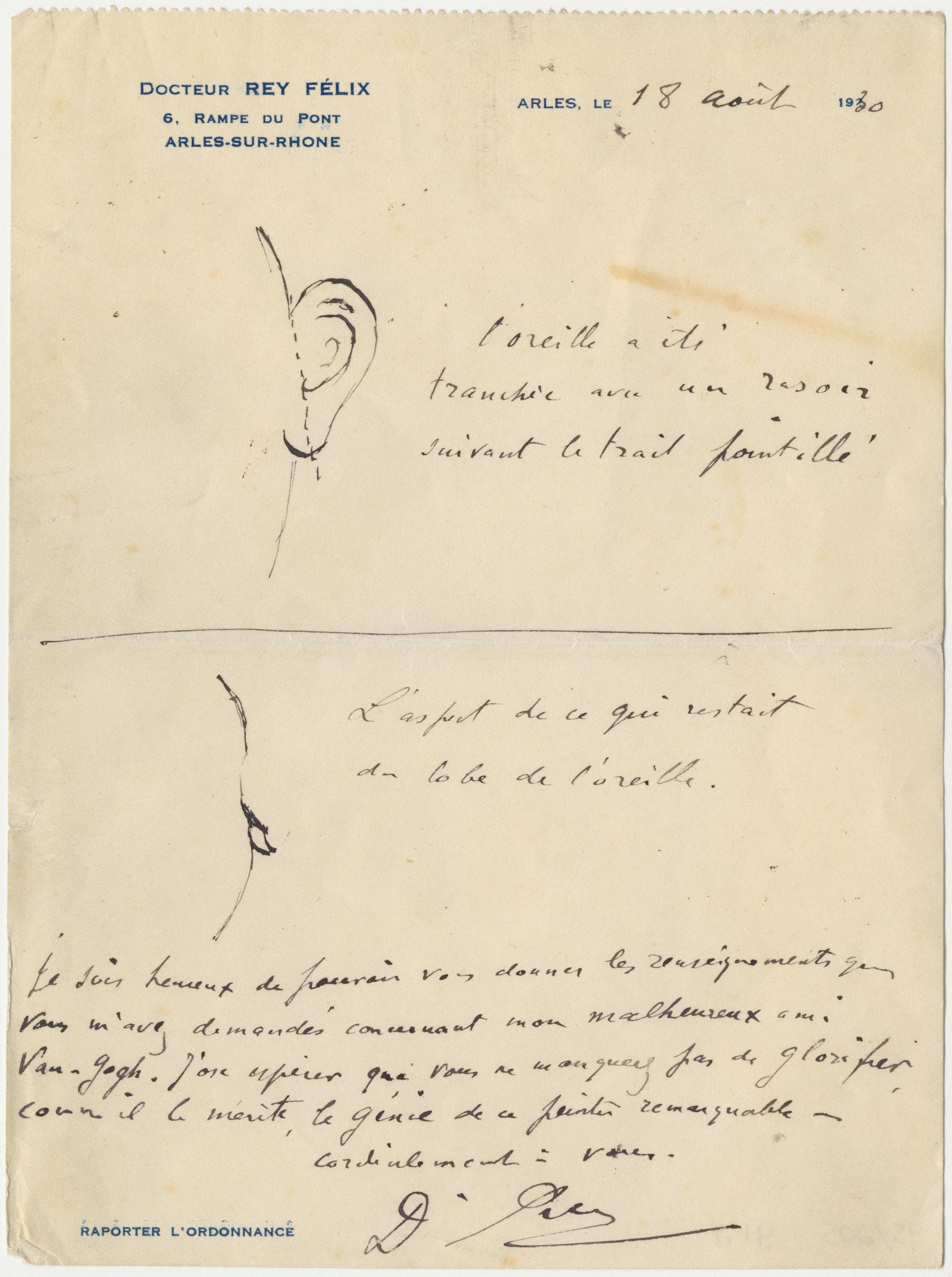 Drawing by Dr. Félix Rey (1867-1932) of the mutilation of Vincent van Gogh's ear